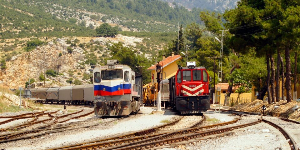 Kiralan railway station.